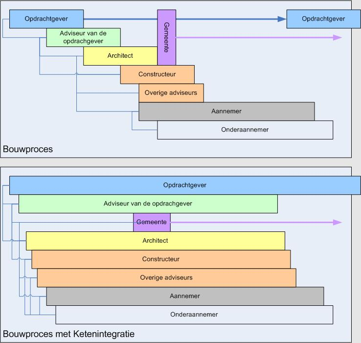 Supply chain integration and collaboration